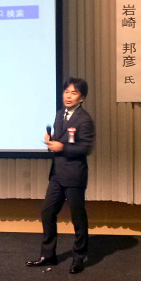 Kunihiko Iwasaki, Professor of the School of Management and Information, University of Shizuoka, gave a lecture at the Hotel Hokke Club Sendai in Sendai City, Miyagi Prefecture on November 24, 2016.